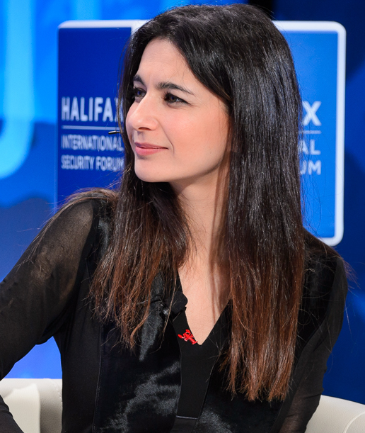 Yalda Hakim, Correspondent for BBC World News, moderates the plenary session “Weaponizing Capital: One Belt, One Road, One Way.”